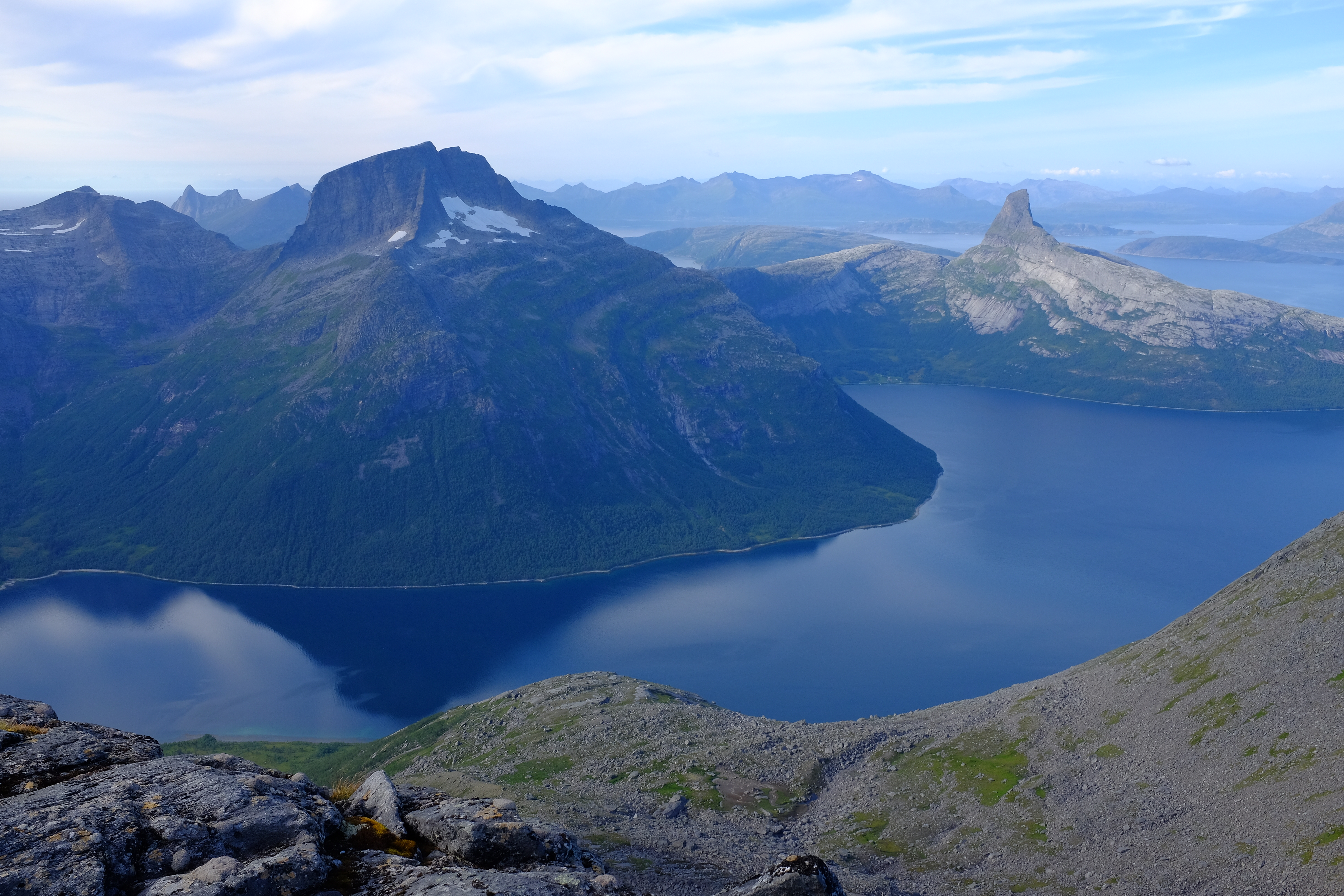 Sjunkfjorden seen from Sørskarfjellet in Sjunkhatten national park, Bodø and Sørfold, Nordland, Norway.